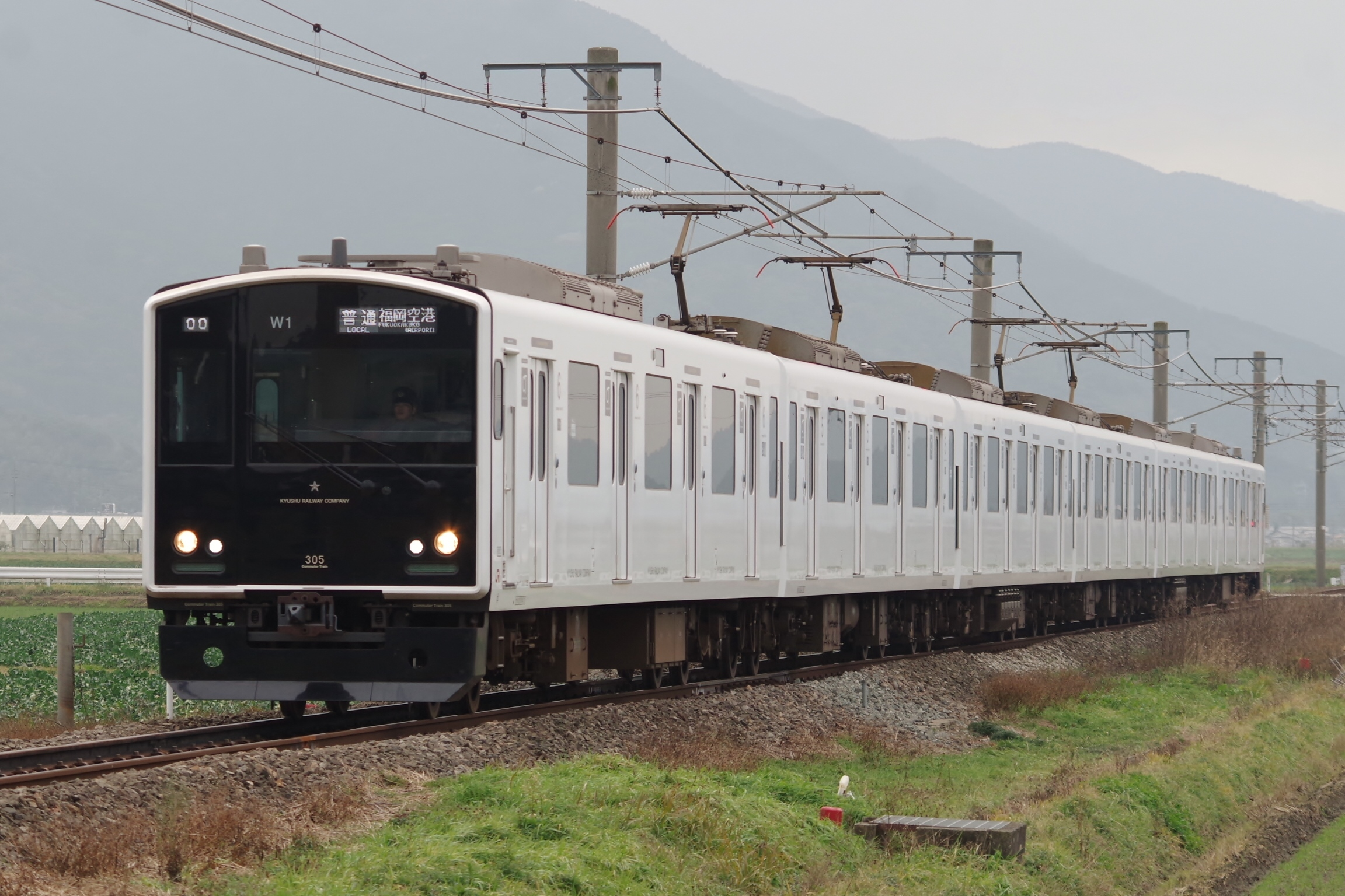 JR Kyushu 305 series EMU train set W1 working on the Chikuhi Line between Chikuzen-fukae and Ikisan